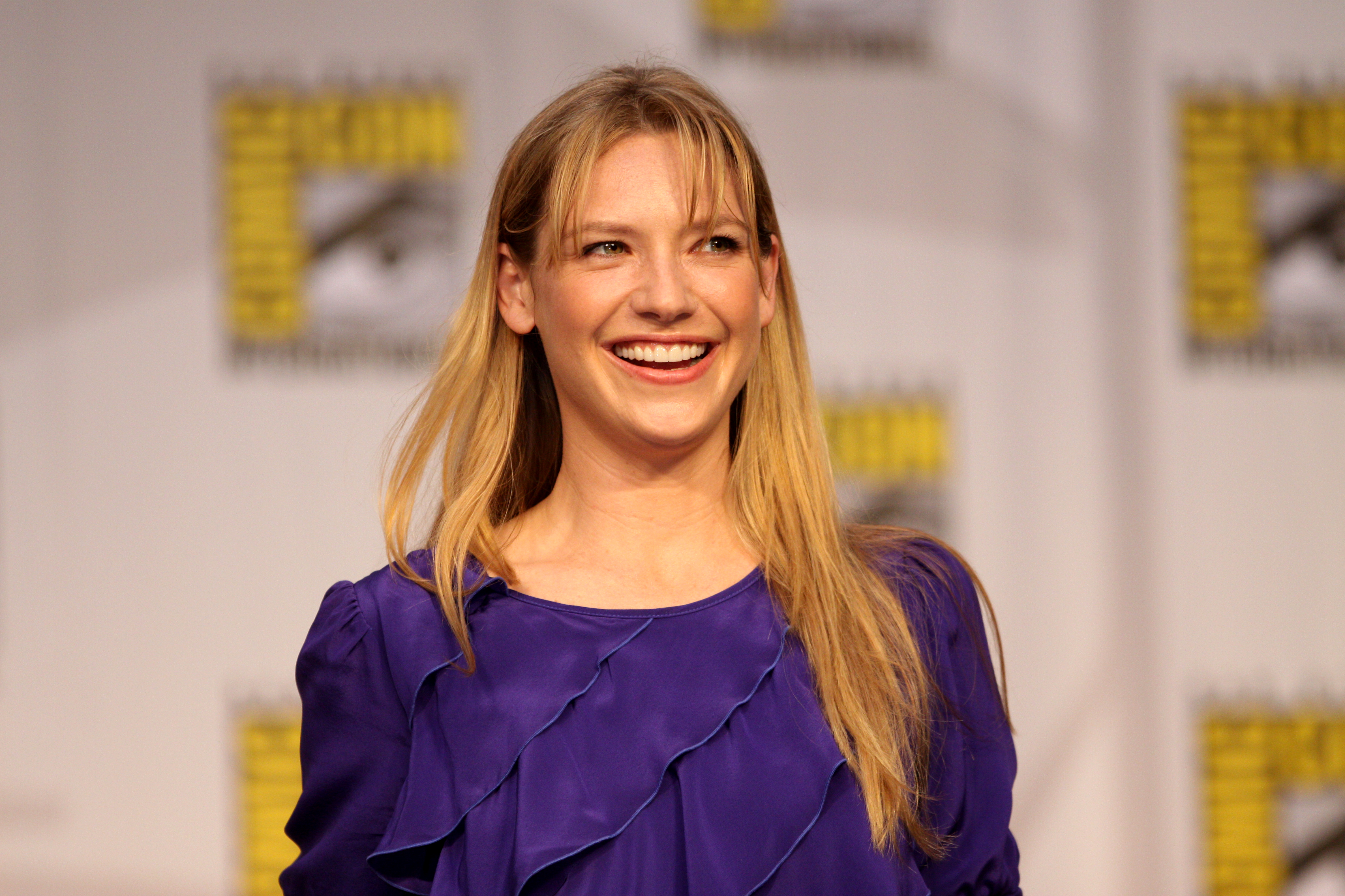 Actress Anna Torv on the Fringe panel at the 2010 San Diego Comic Con in San Diego, California.